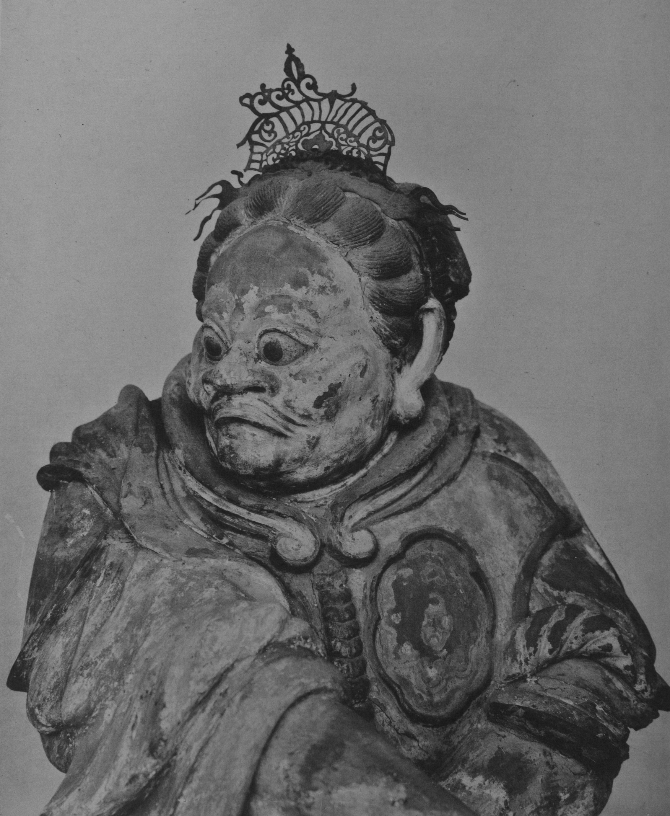 Hokuendō, Kōfuku-ji, Nara, Japan